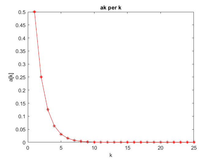 Ak_converganceRate